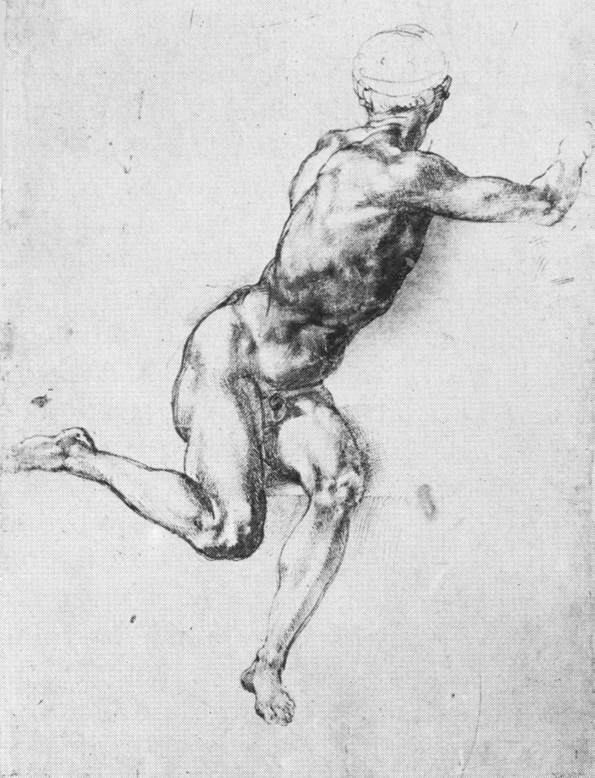 MICHELANGELO Buonarroti Study for the Battle of Cascina Chalk and silver rod on paper, 235 x 356 mm Galleria degli Uffizi, Florence